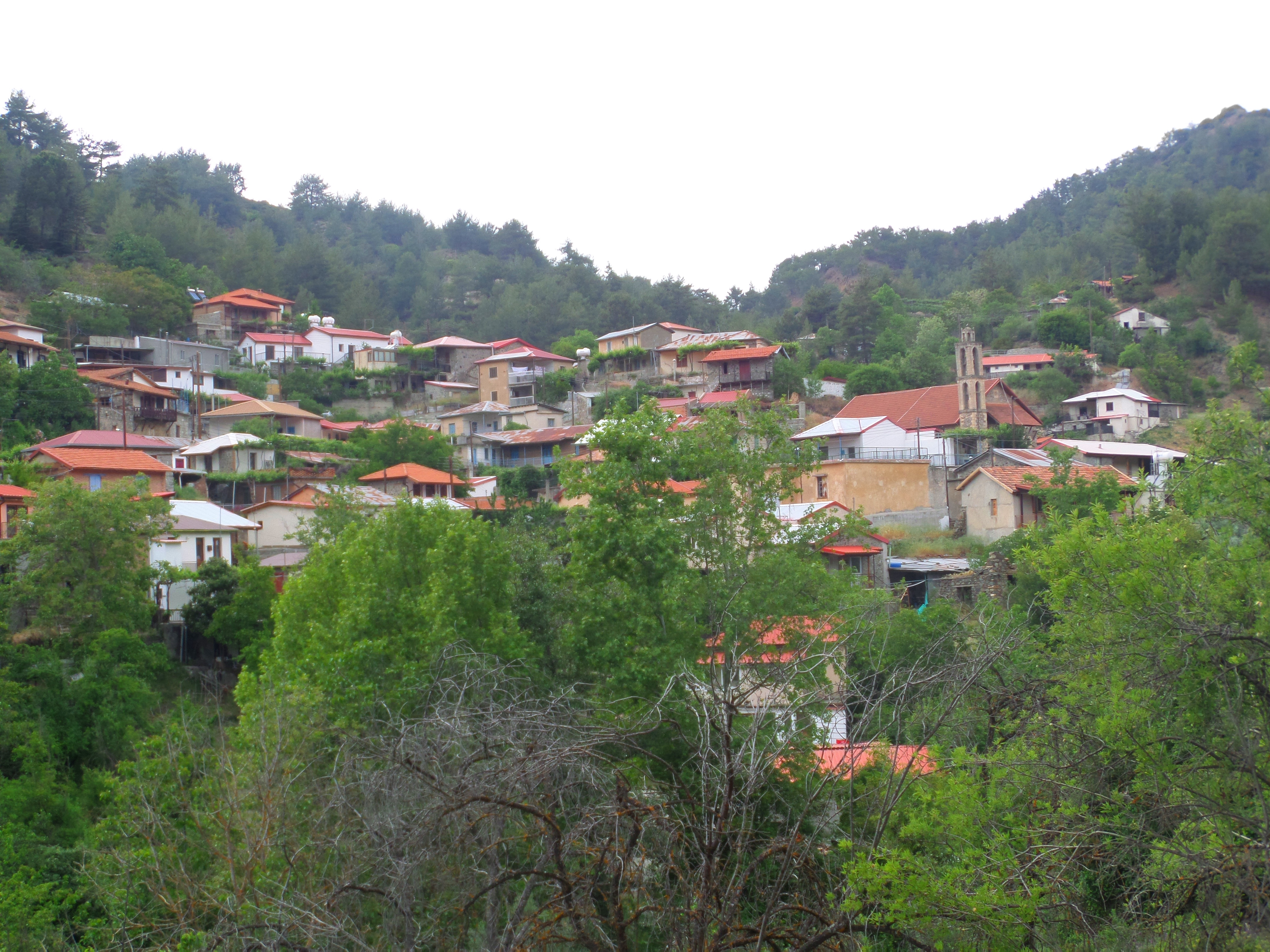 View of Treis Elies.